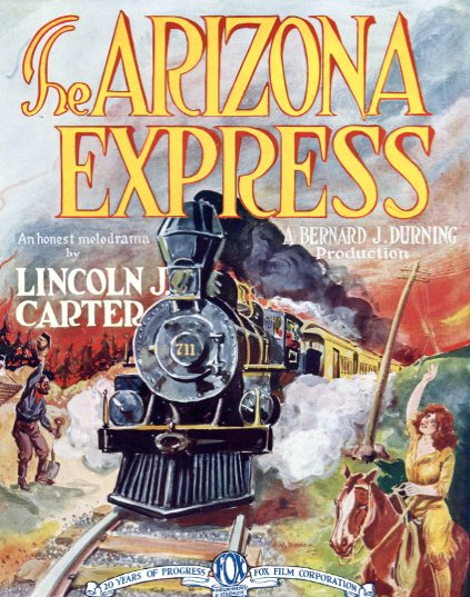 Poster for the 1924 American film The Arizona Express